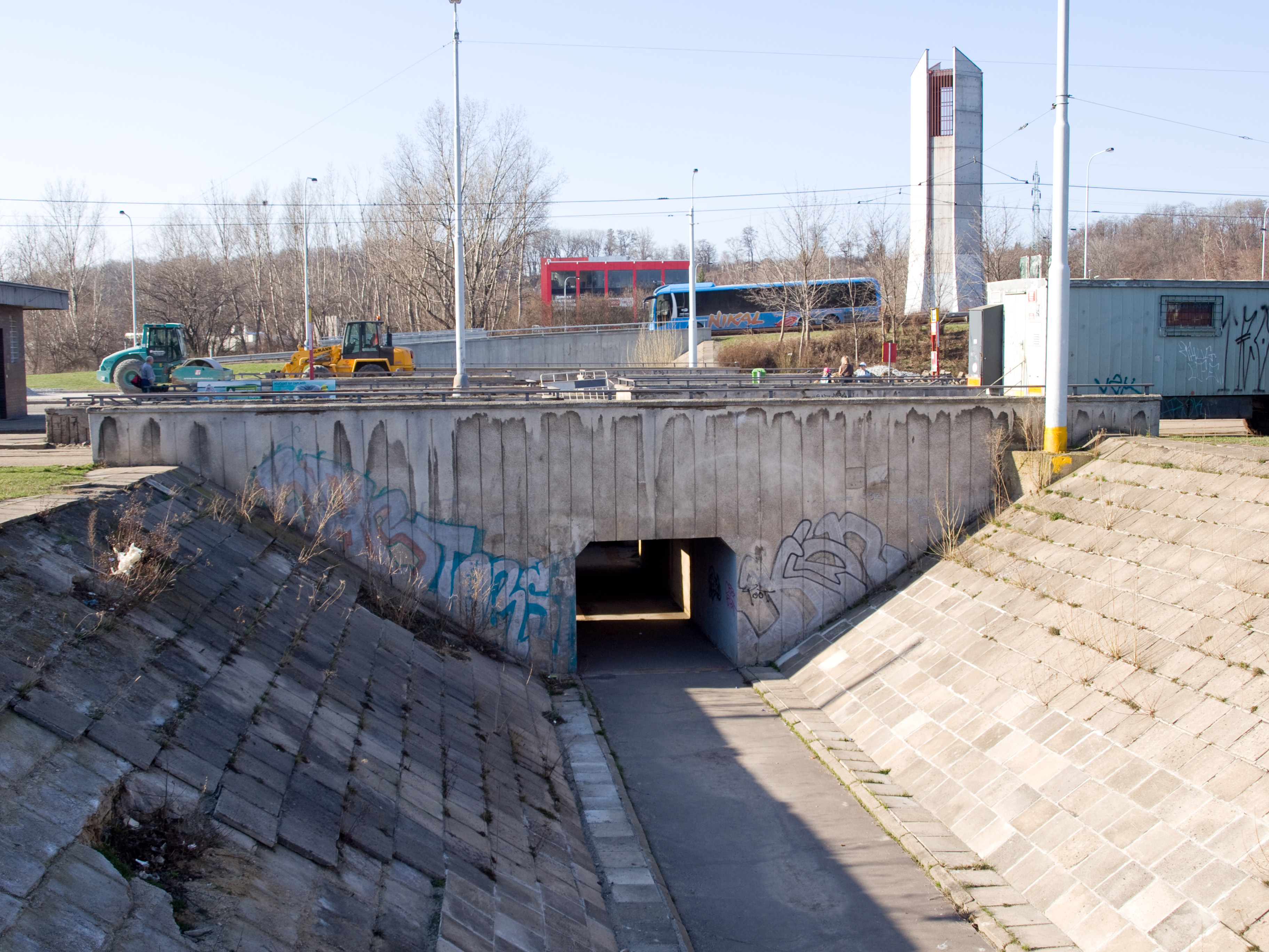 Underpass, Lehovec, Reconstruction of tram track Starý Hloubětín – Lehovec, Prague 14